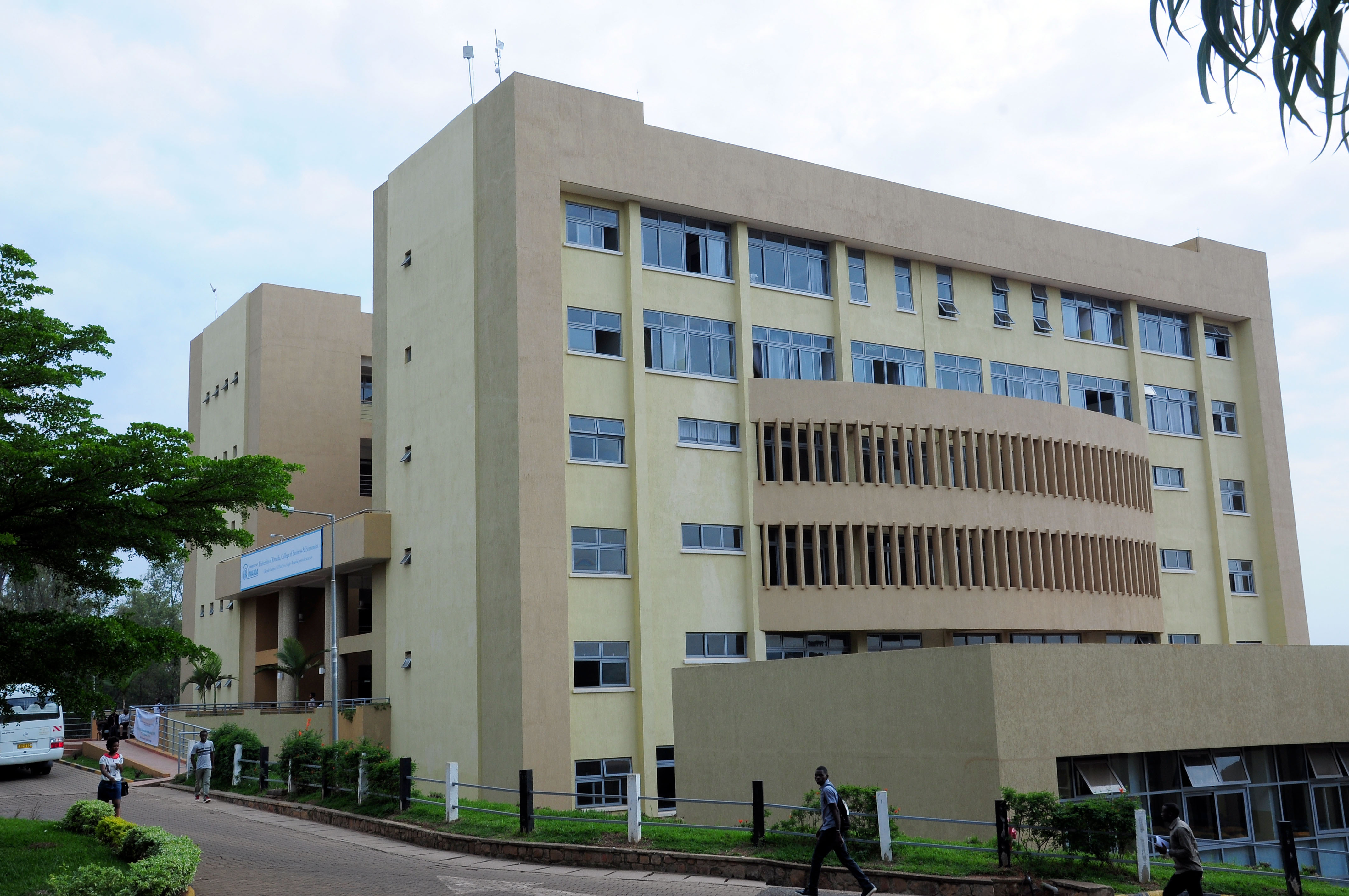 The current headquarters of the University of Rwanda